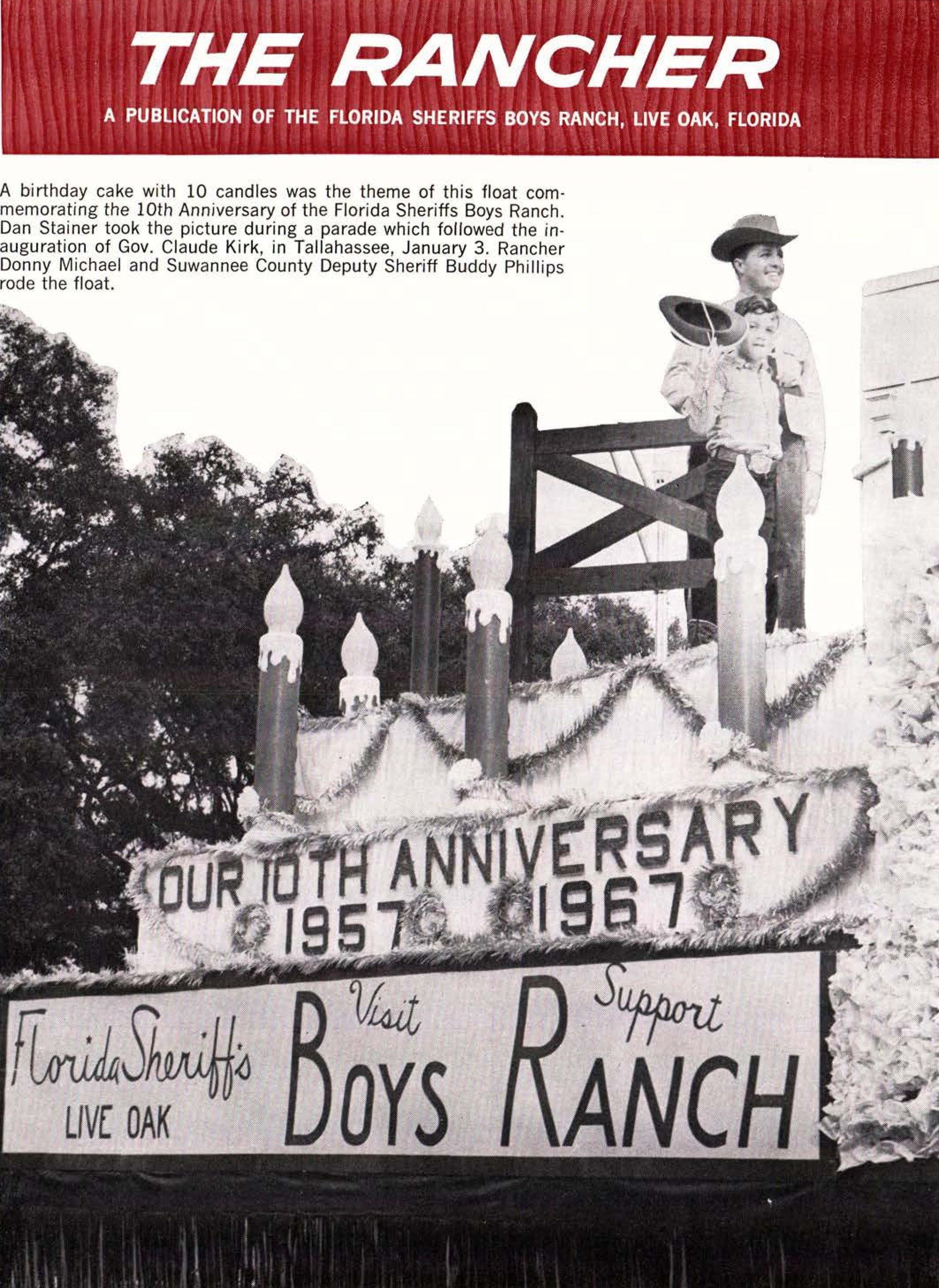 The sheriff Star